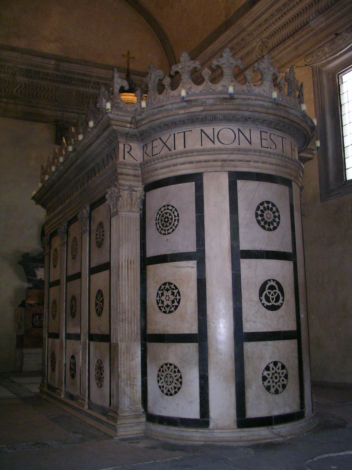 Temple by Leon Battista Alberti (bakc) in Florence, Italy